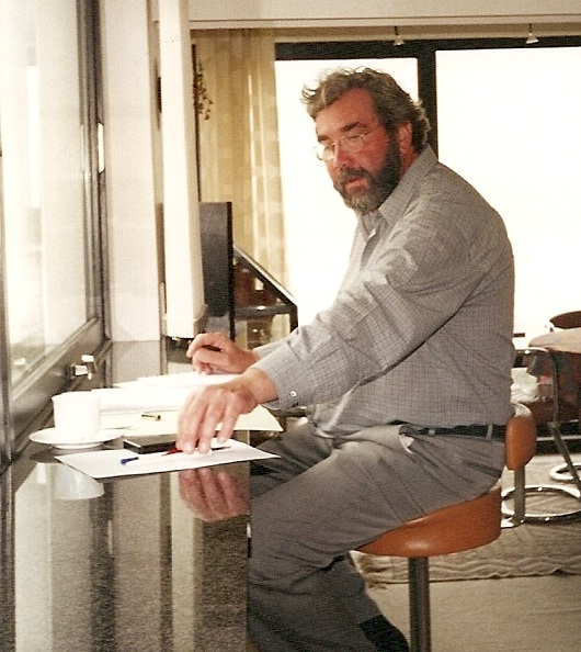 Self made picturue of Chris Wiliquet writing his book.